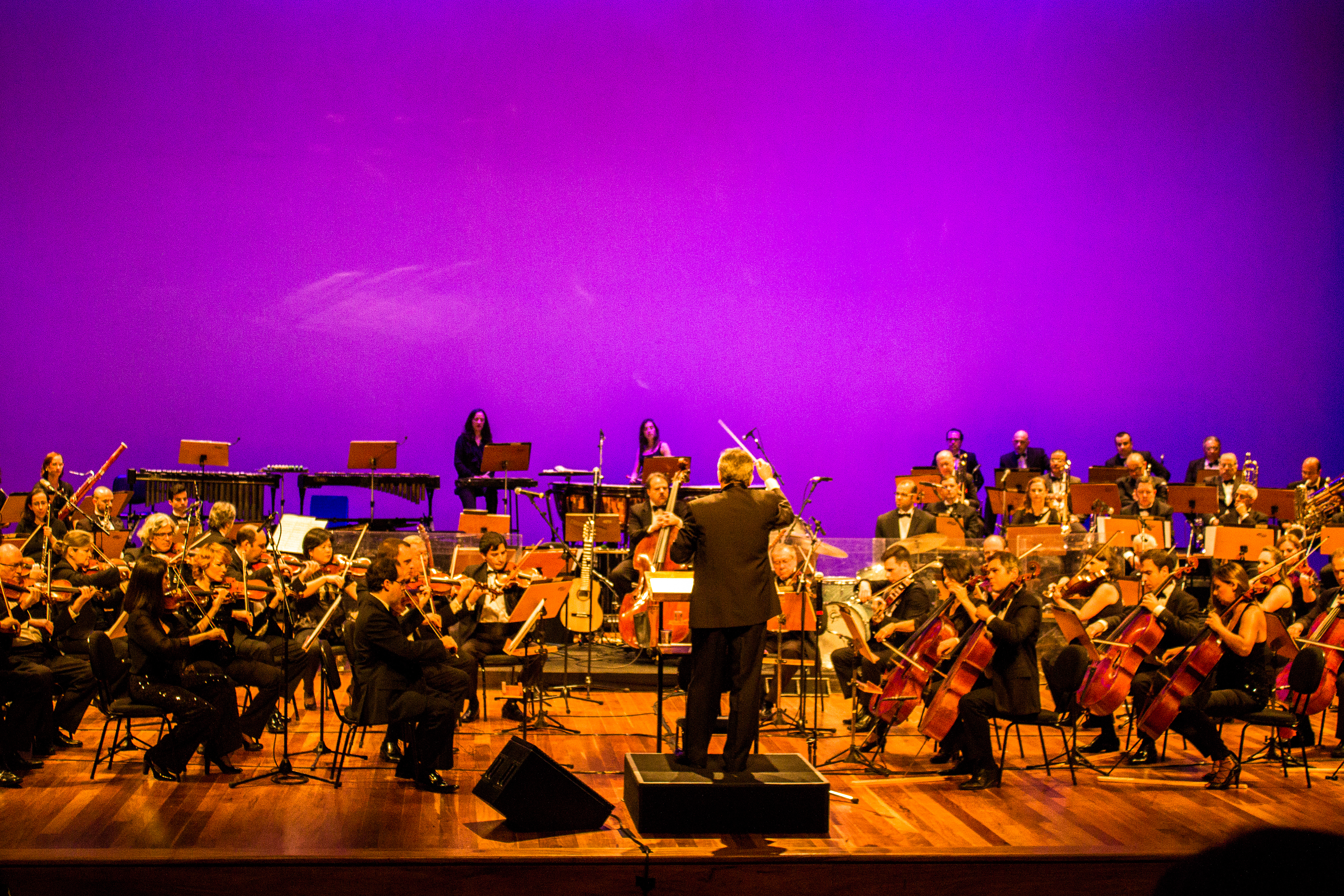 jazzk